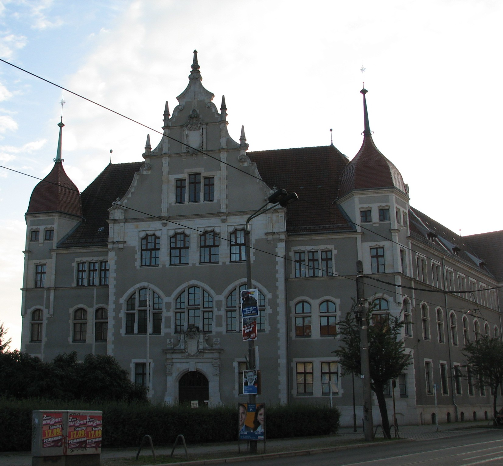 Mandrellaplatz 6 in Berlin-Köpenick, used as a court house today